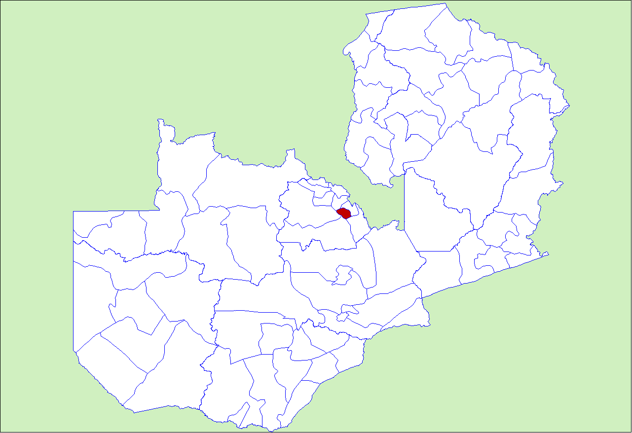 District locator in Zambia